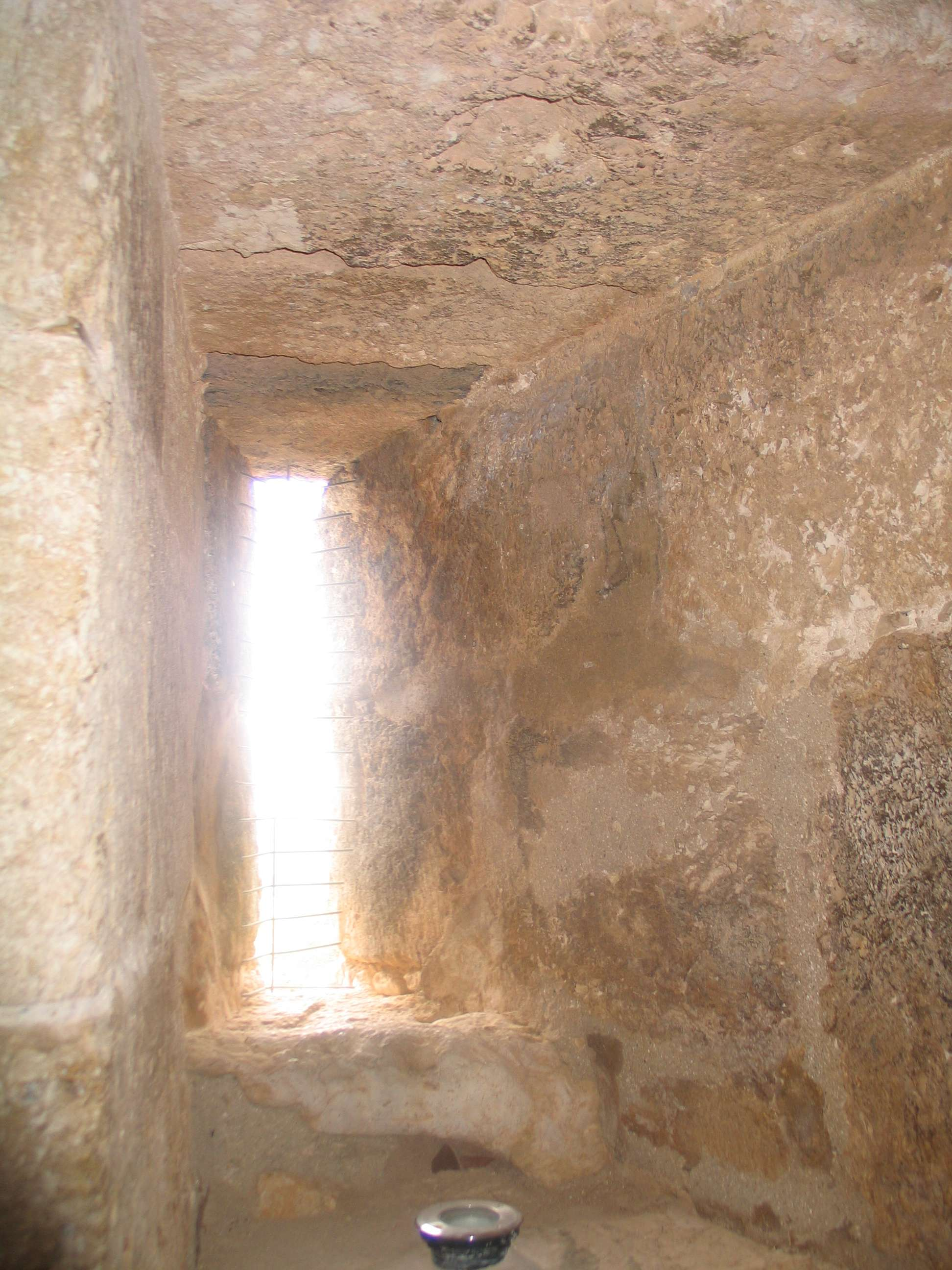 Crusader tower in Tsipori, Israel.